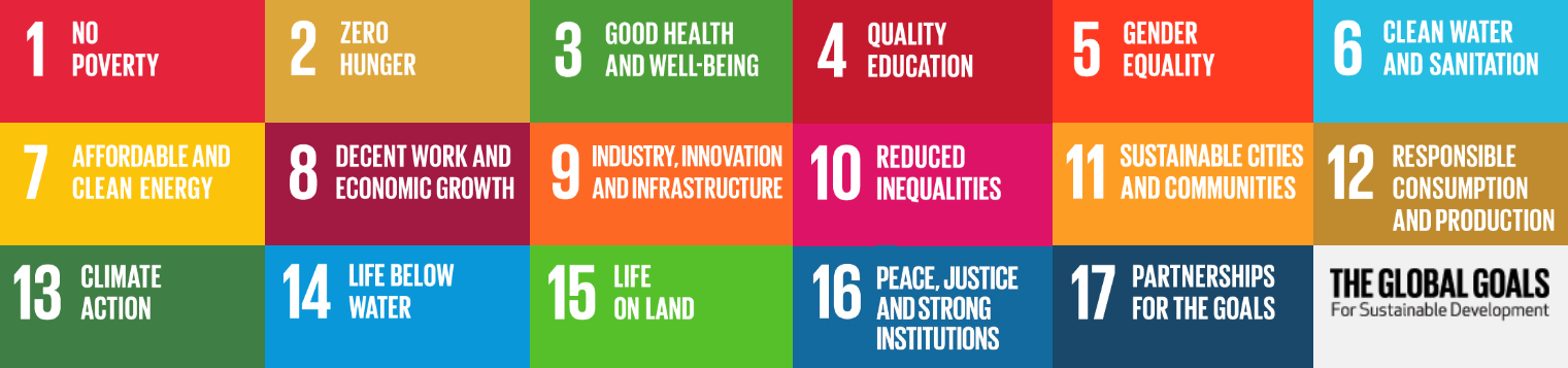 The 17 Sustainable Development Goals of the UN